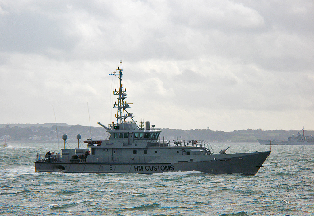 The Her Majesty's Revenue and Customs vessel HMCC Valiant photographed at Portsmouth, UK. It is one of the fleet of Damen 42-metre class customs patrol vessels, delivered in 2004 to the then HM Customs and Excise.[1]